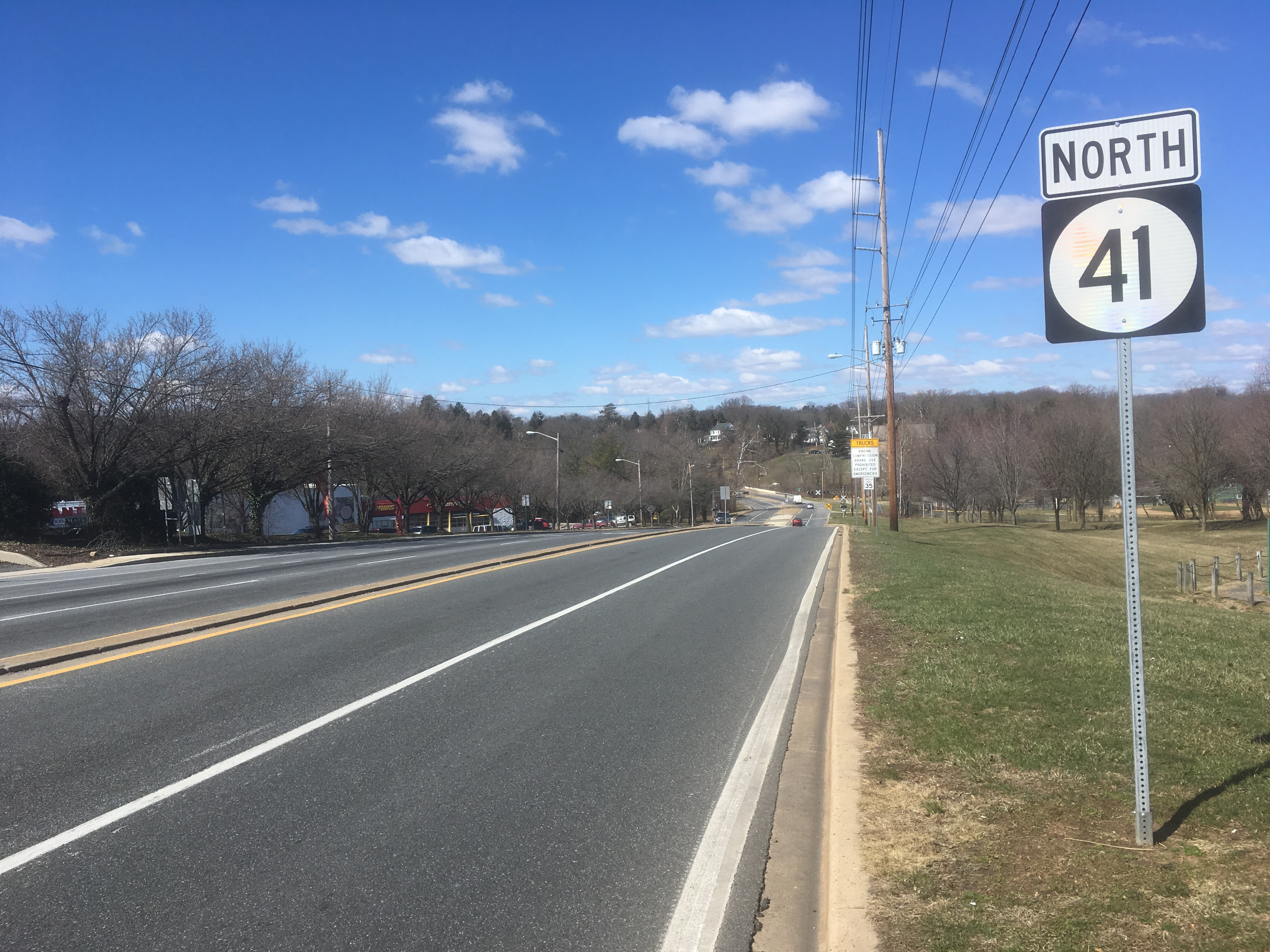 Northbound Delaware Route 41 (Newport Gap Pike) past its southern terminus at the intersection with Delaware Route 2 (Kirkwood Highway) and the western terminus of Delaware Route 62 (Newport Gap Pike) in Prices Corner, Delaware